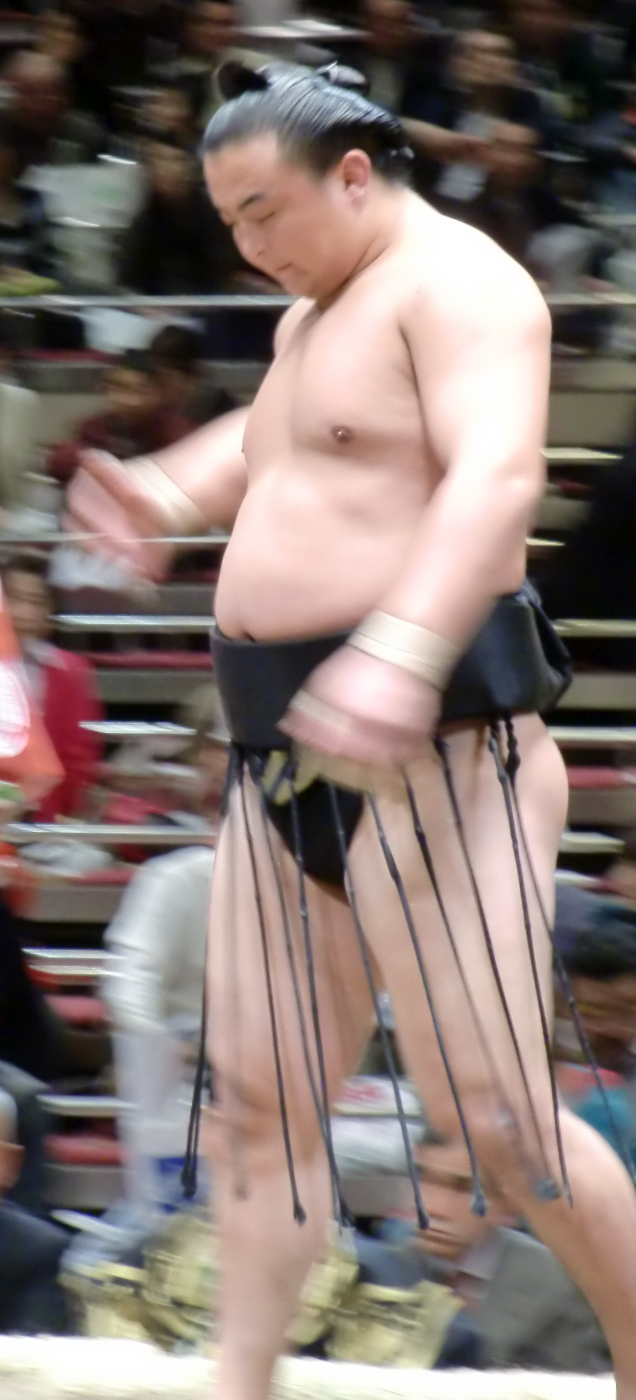 taken at January 2010 tournament